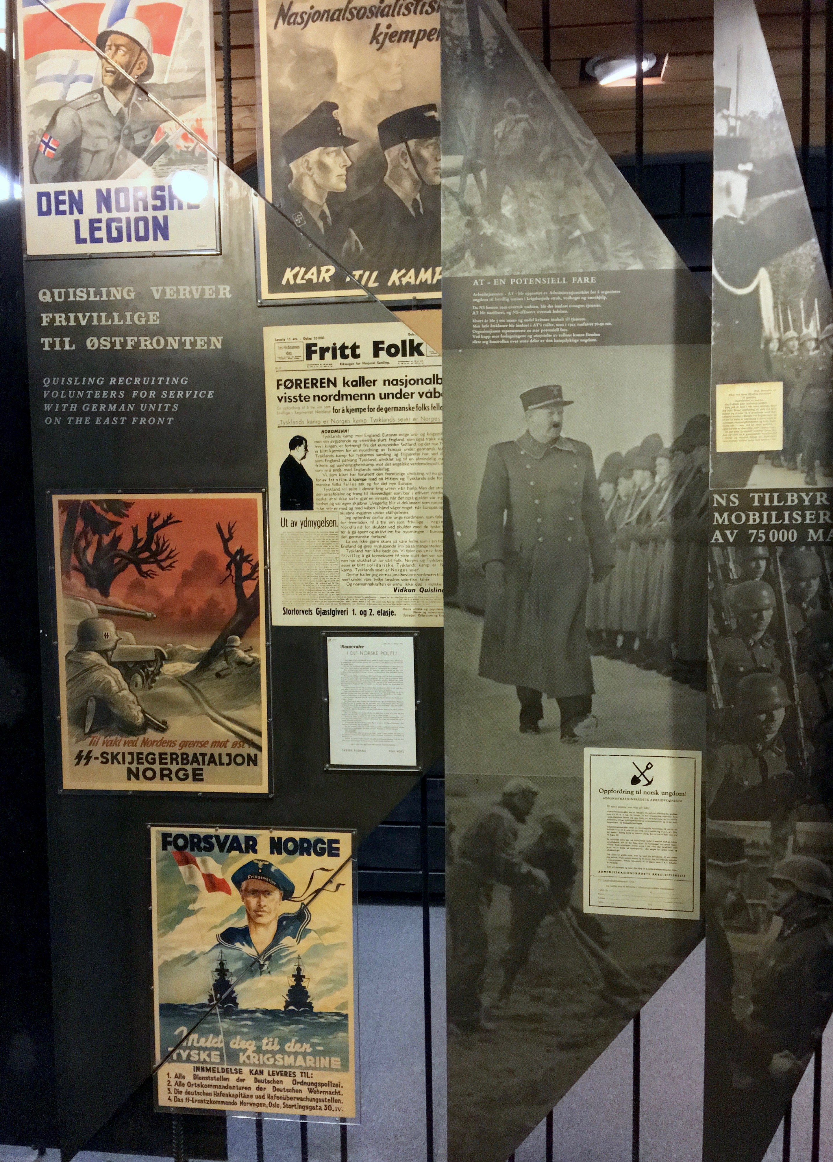 Part of the exhibition at Norway's Resistance Museum (Norges Hjemmefrontmuseum) in Oslo: "Quisling recruiting volunteers for service with German units on The East Front during World War 2." Facist newspaper Fritt Folk, posters for Den Norske Legion and SS-skijegerbataljon, etc. Also images from NS Arbeidstjenesten and Quisling photo. Photo taken on 2017-11-30.